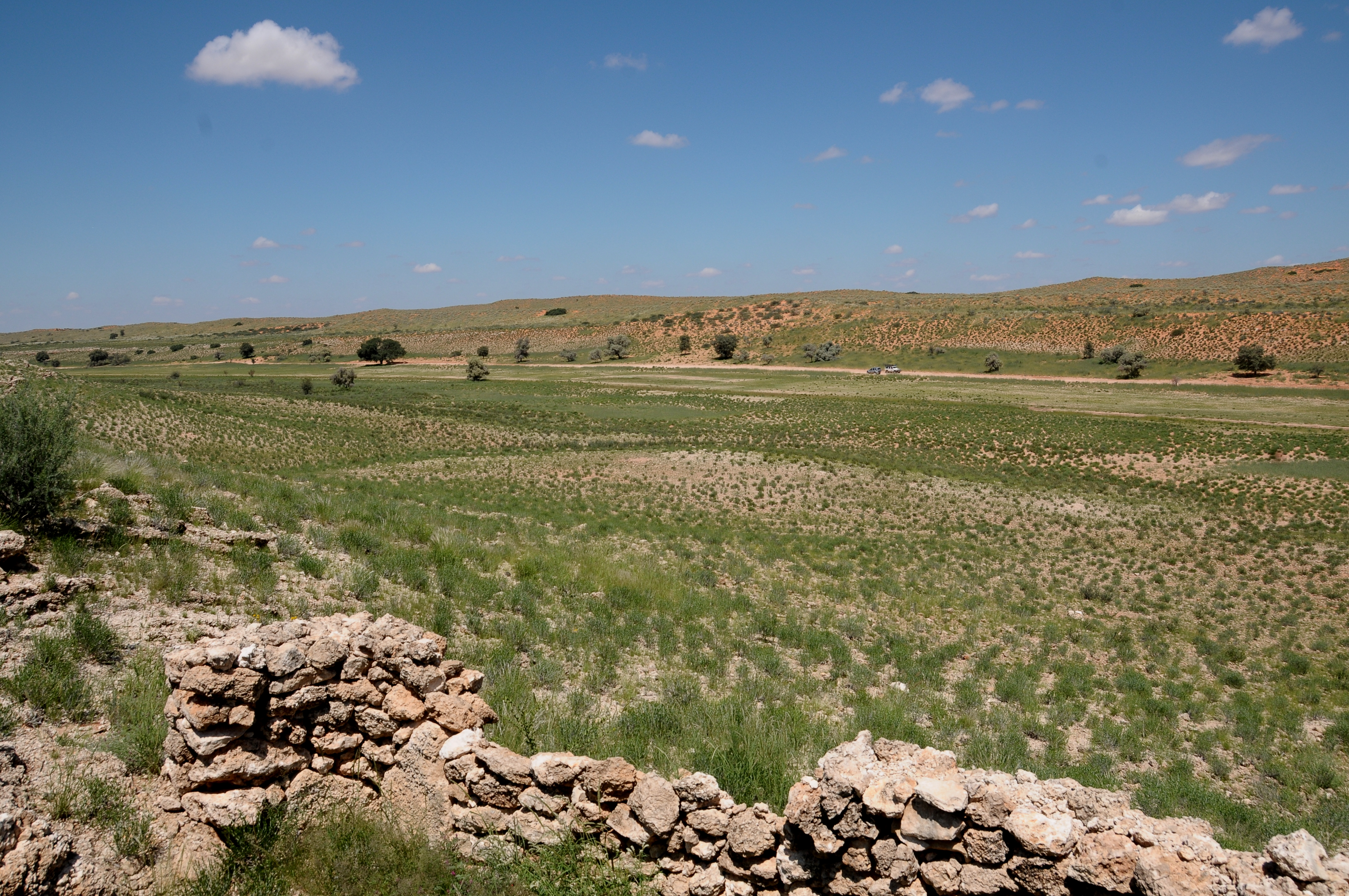 The Nossob River course